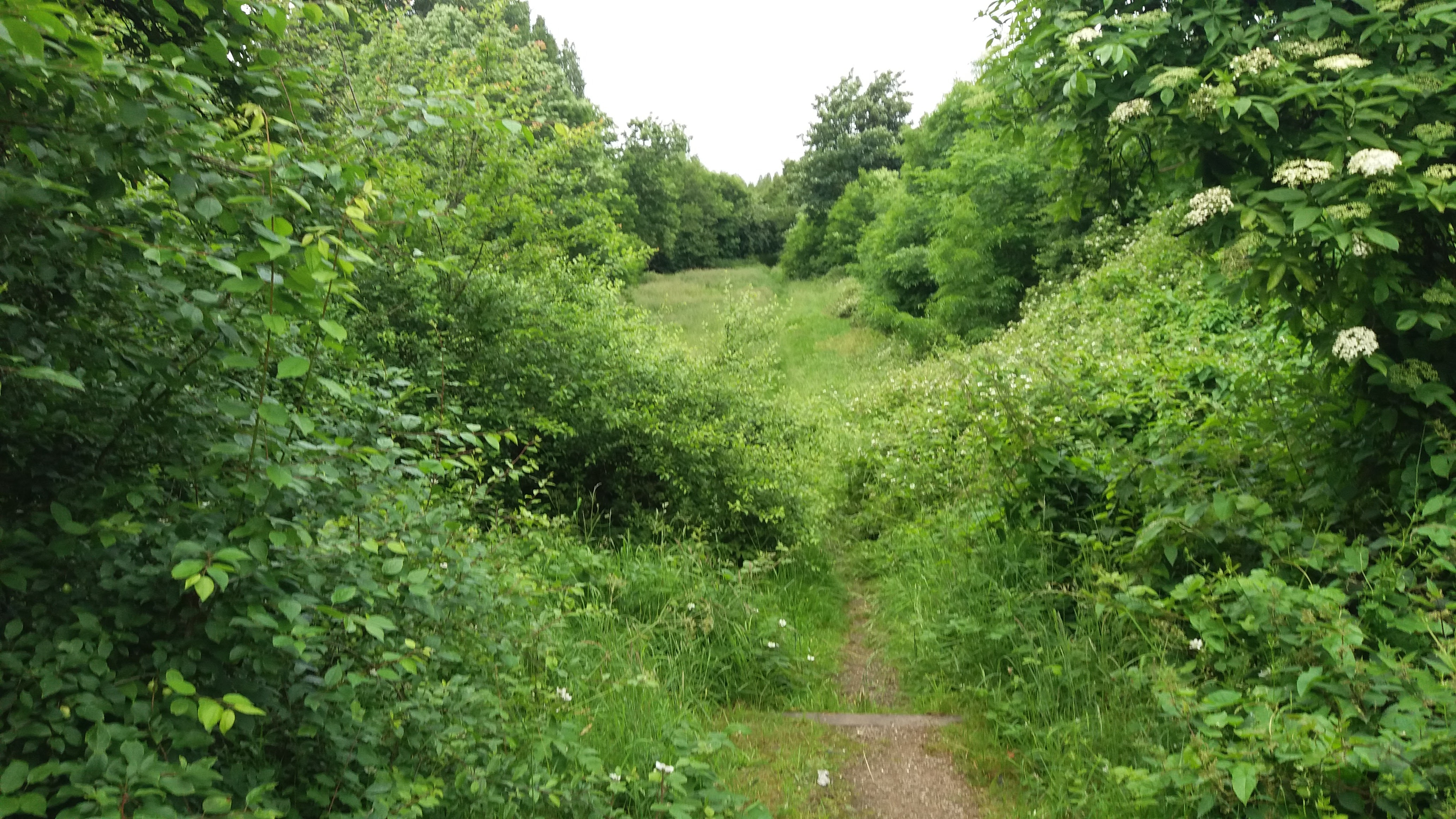 My Own.